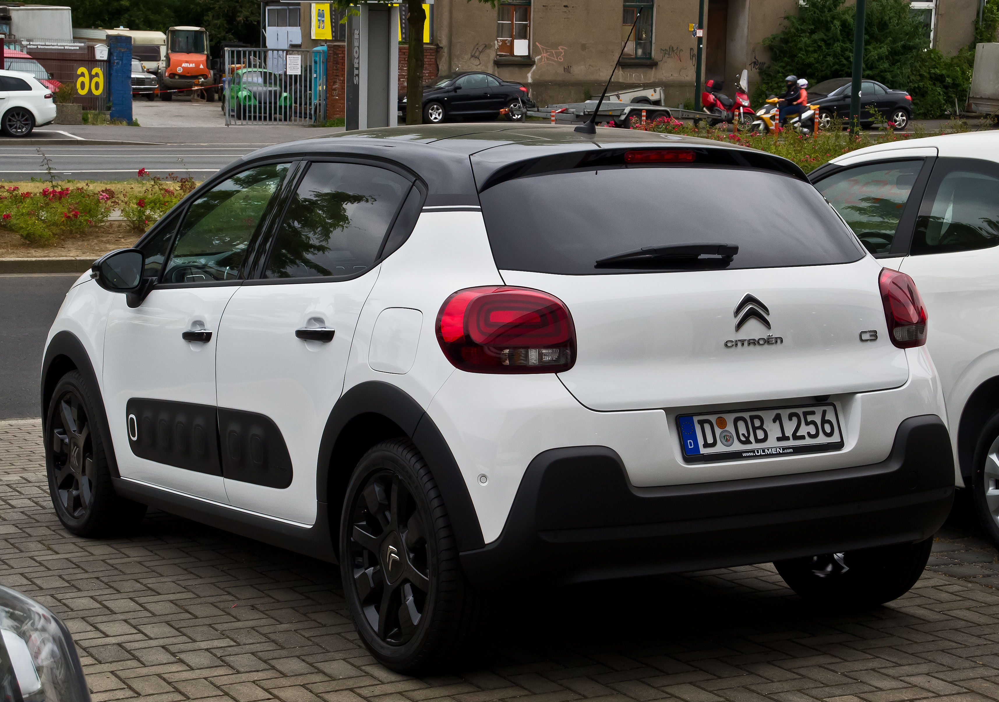 Citroën C3 BlueHDi 100 Shine (III)